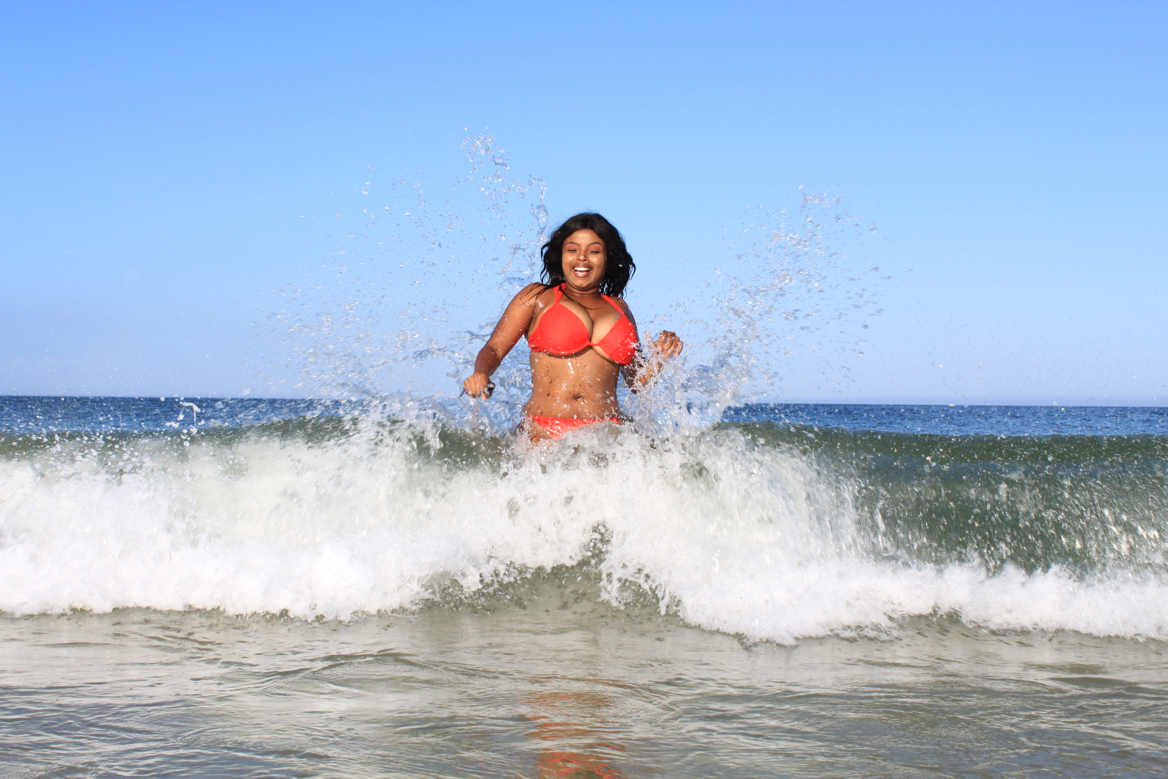 This is an image with the theme "Play" from: South Africa